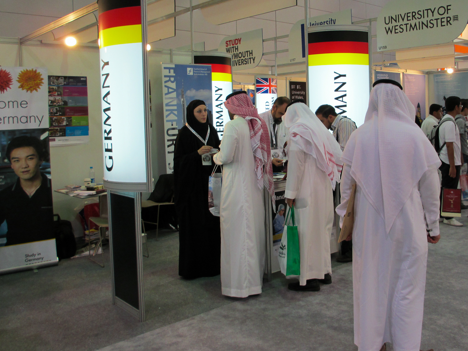 Frankfurt School of Finance & Management at the IECHE Higher Education fair in Riyadh, Saudi Arabia